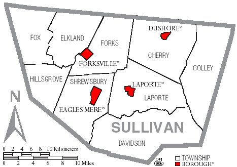 Map of Sullivan County with township and municipal bondaries is taken from US Census website [1] and modified by User:Ruhrfisch in August 2005. My modifications licensed under the GNU Free Documentation License. Source: US Census website [2], modified by User:Ruhrfisch